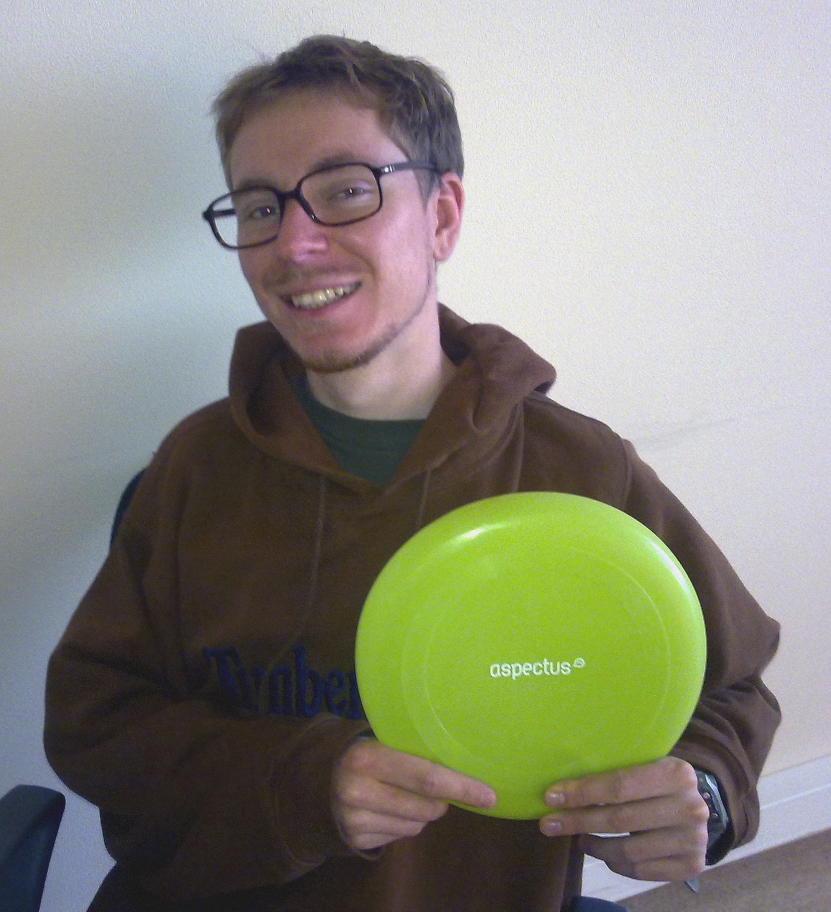 It is photo made by me in Stockholm on my Nokia and after resized in resize tool